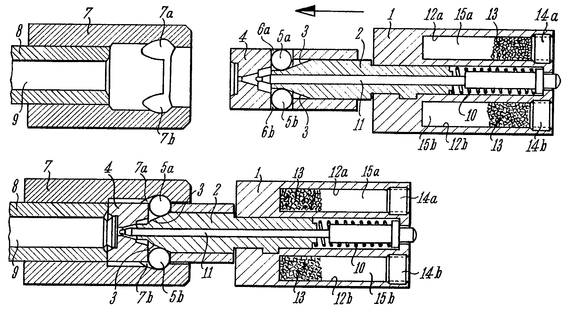 Roller-delayed blowback mechanism for automatic weapon.